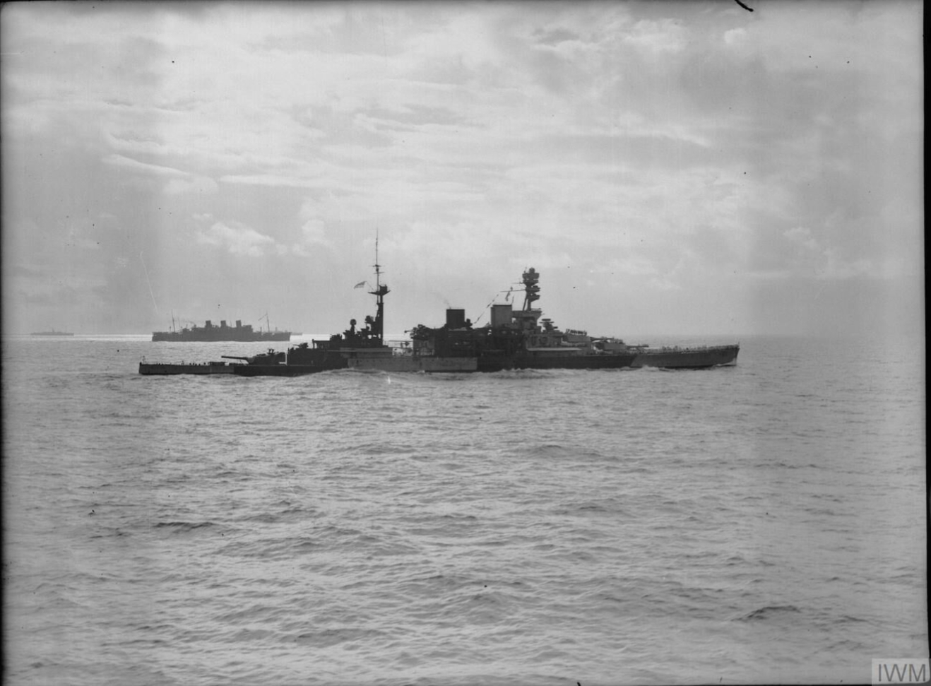 The Royal Navy during the Second World War The battlecruiser HMS REPULSE, painted in a dazzle camouflage scheme, while escorting the last troop convoy to reach Singapore. The ship was sunk a few days later with great loss of life on 10 December 1941 by Japanese torpedoes. The sinking, along with that of HMS PRINCE OF WALES, was an appalling blow to British prestige in the Far East.